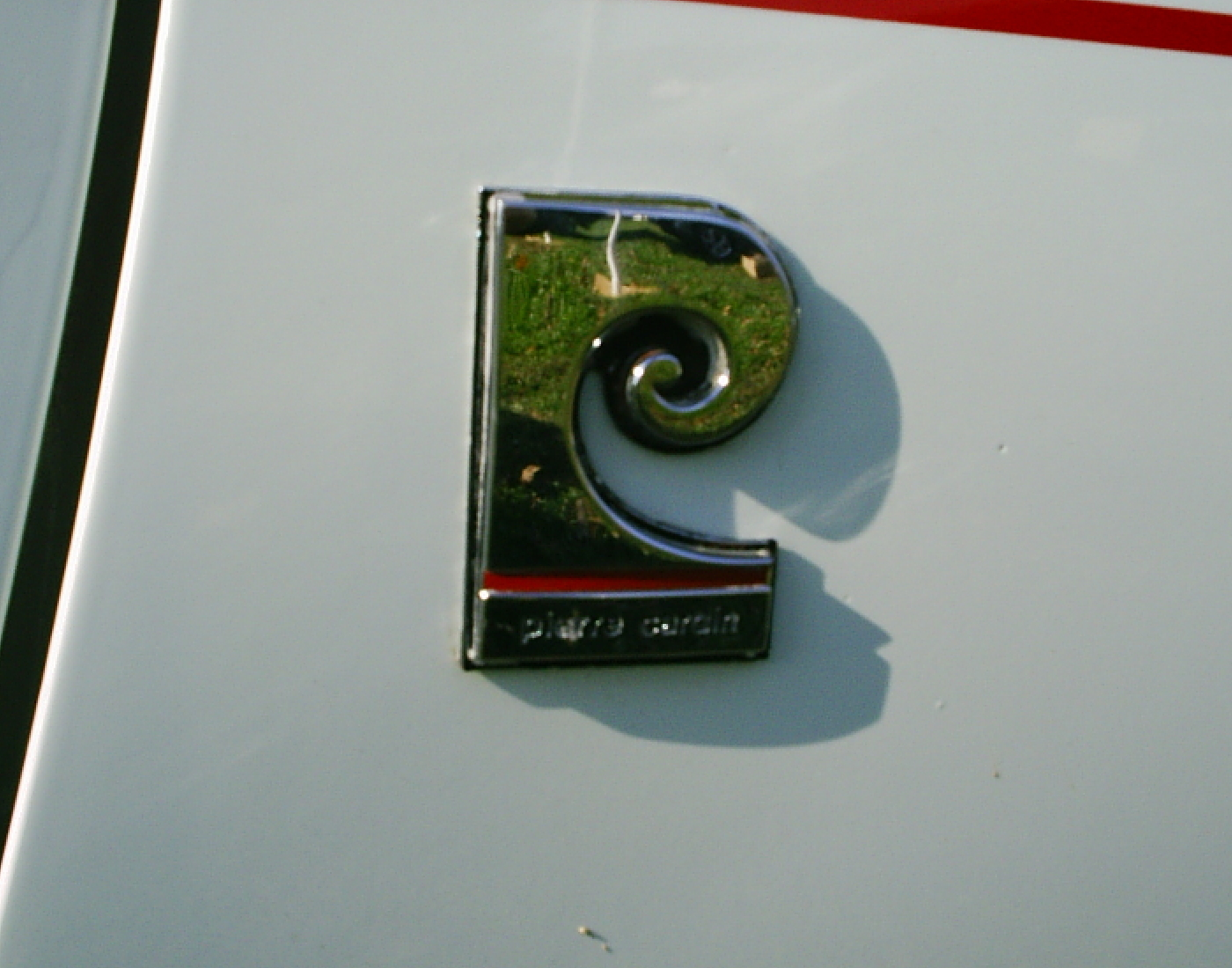 The Pierre Cardin emblem on the front fender of Javelins with the optional designer interior that was available in American Motors Corporation (AMC) Javelin SST "pony car" during the 1972 and 1973 model years.